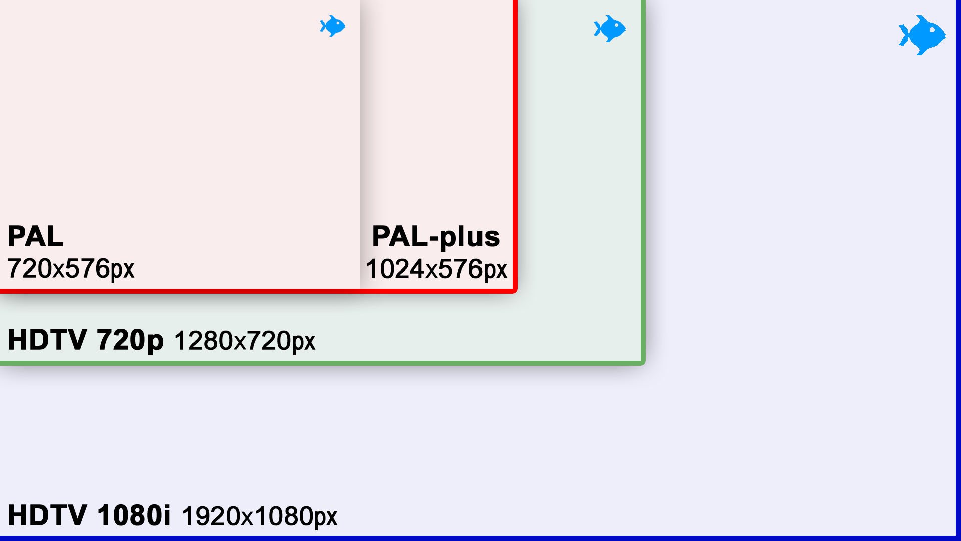 Comparison between several European TV-standards created on Benutzer Diskussion:Andreas -horn- Hornig/Bildwerkstatt